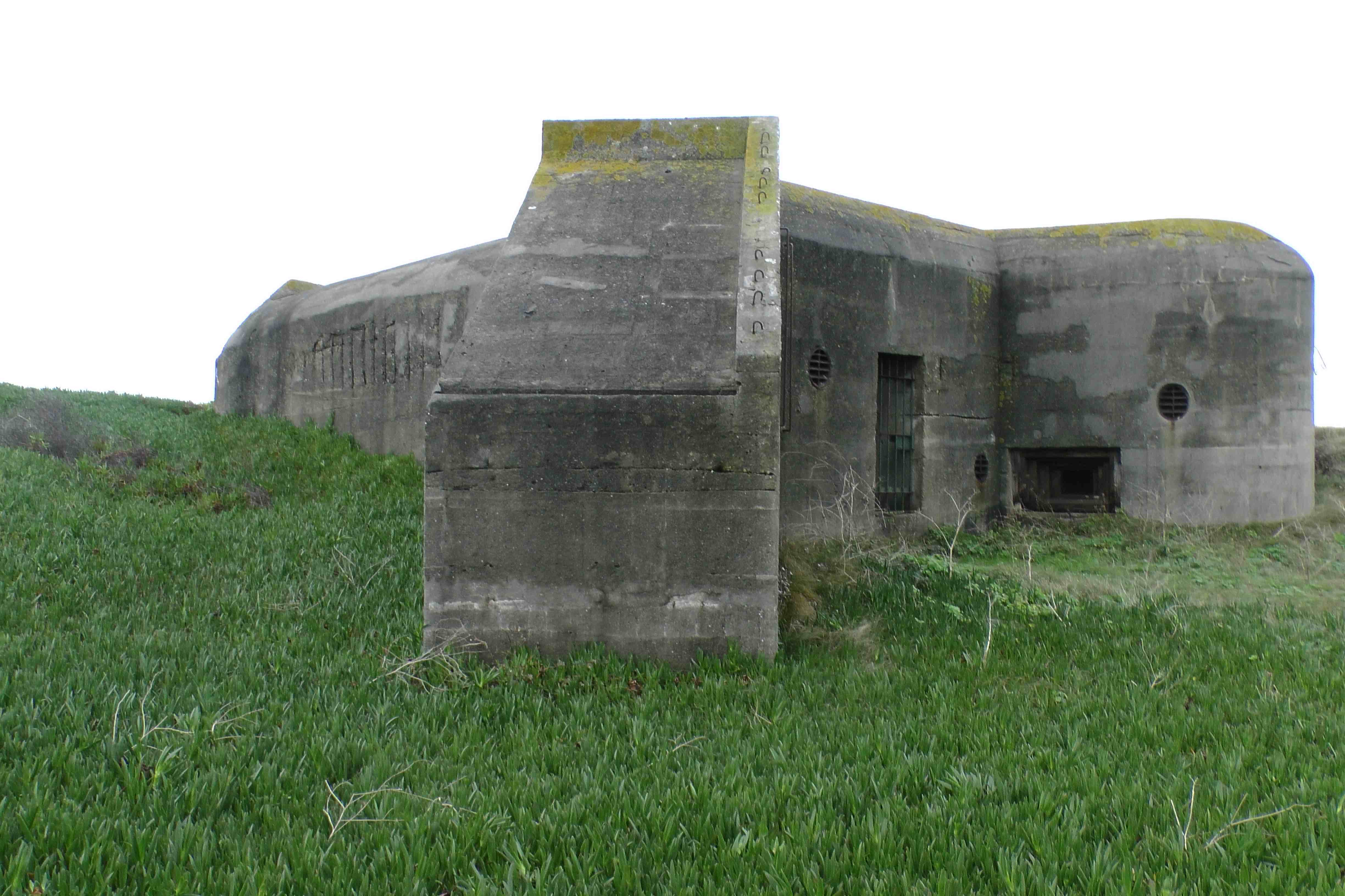 Casemate Guernsey